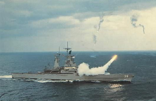 The U.S. Navy guided missile cruiser USS Virginia (CGN-38) launching a RIM-66 Standard missile. The photo was taken before her 1984-1985 refit.